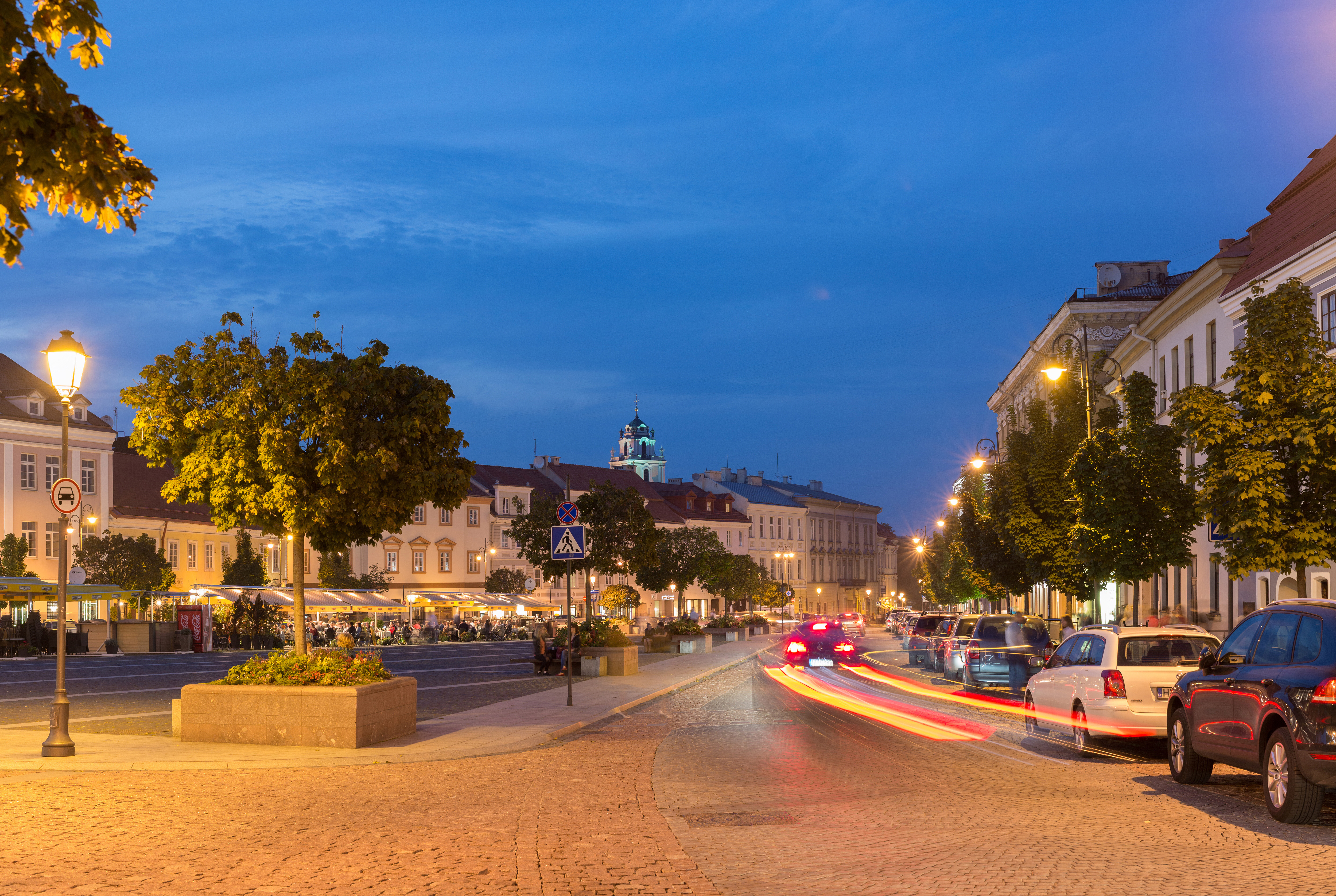 Didžioji Street at dusk, looking north from Vilnius Town Hall, Vilnius, Lithuania.